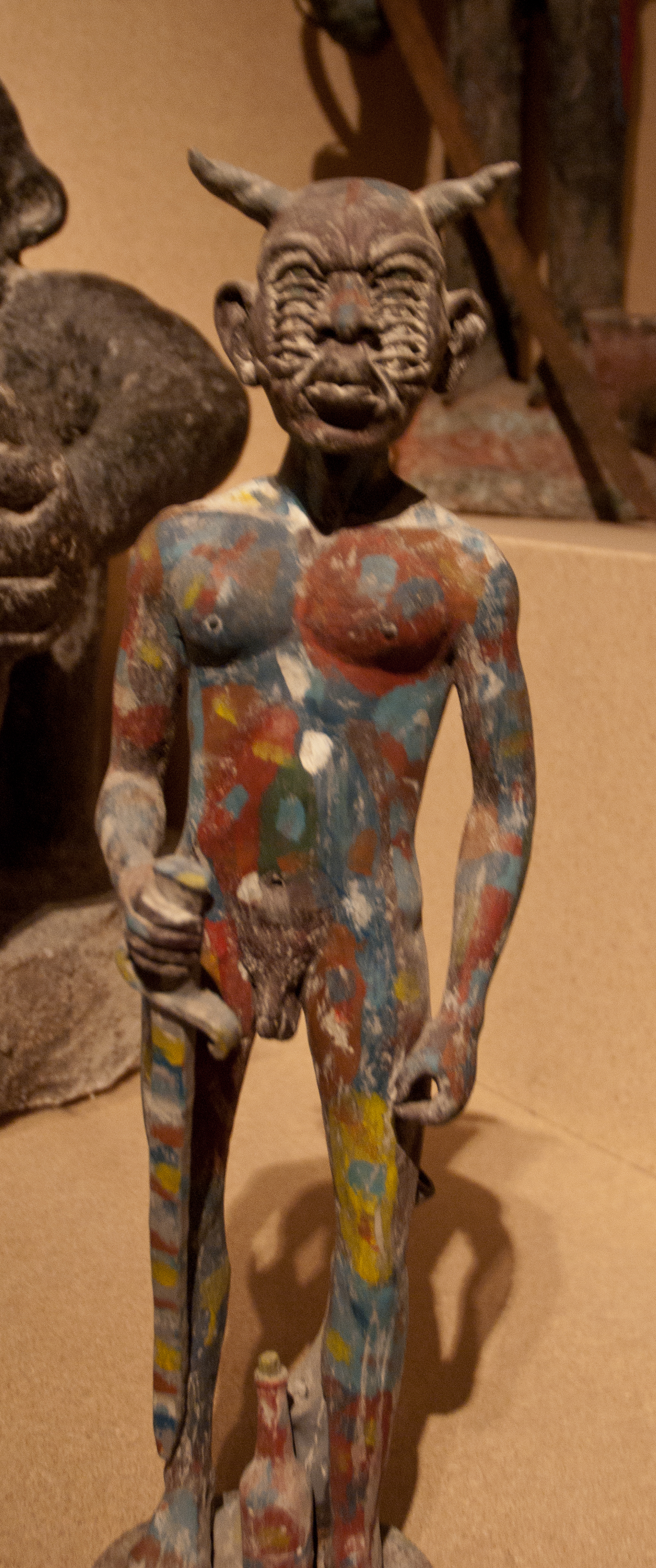 Haitian Vodou fetish statue representing a devil with twelve eyes, exhibit at Ethnological Museum of Berlin, Germany